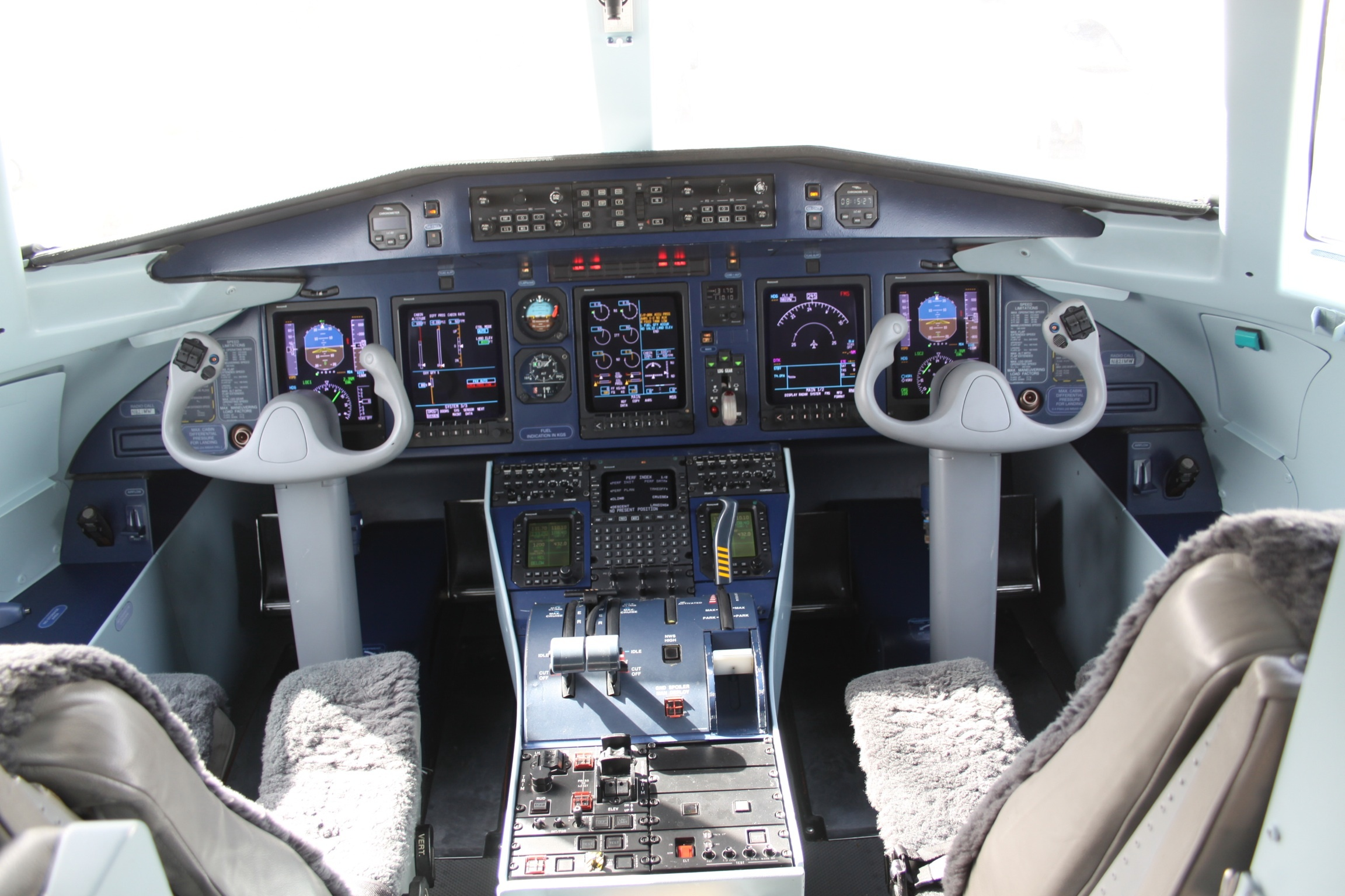 At Dubai International DXB